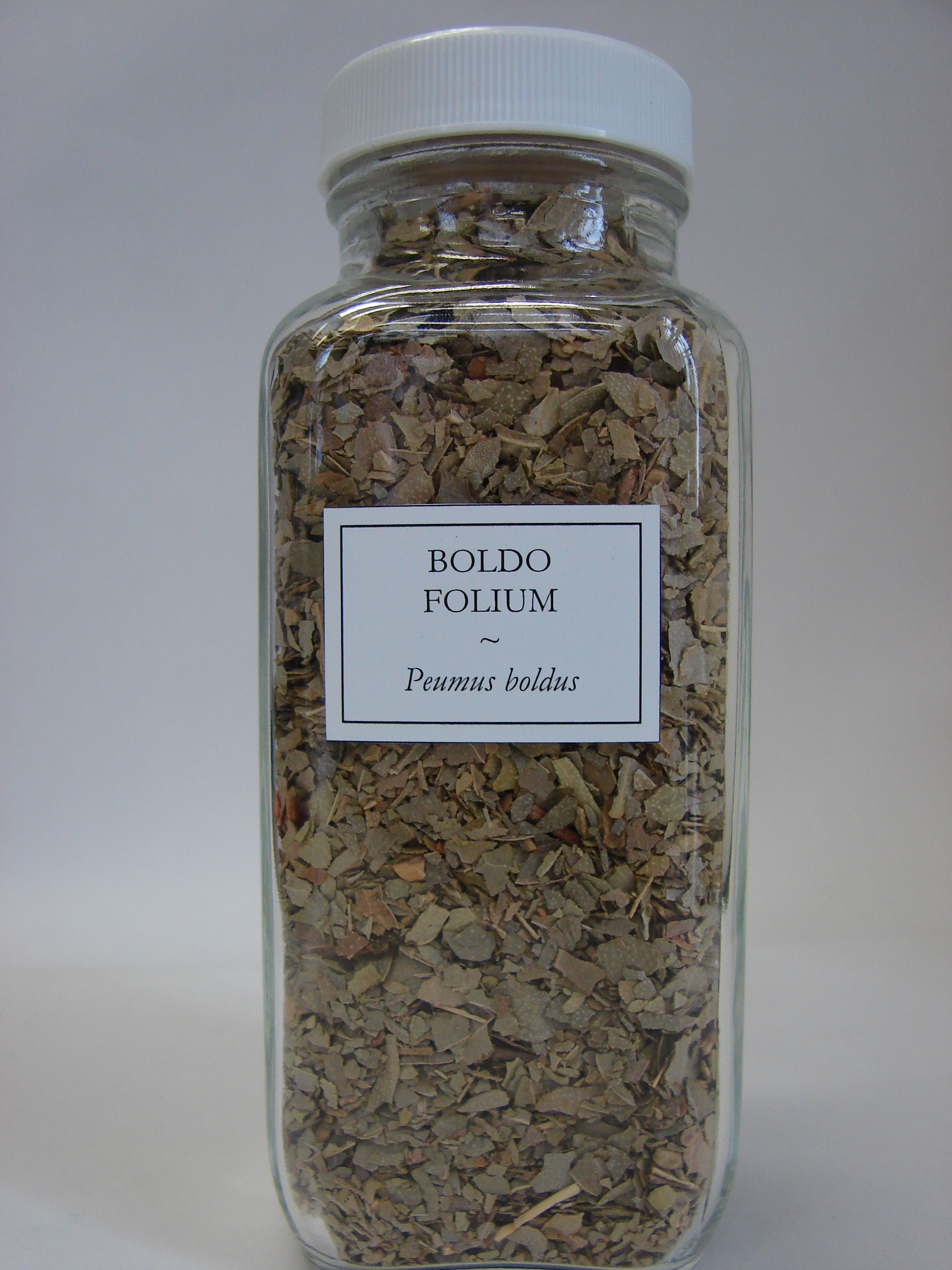 Boldo folium, Peumus boldus